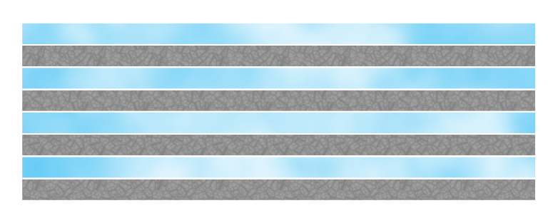 Diagram of bulletproof glass, based on File:Rough visualisation of bulletproof glass.jpg